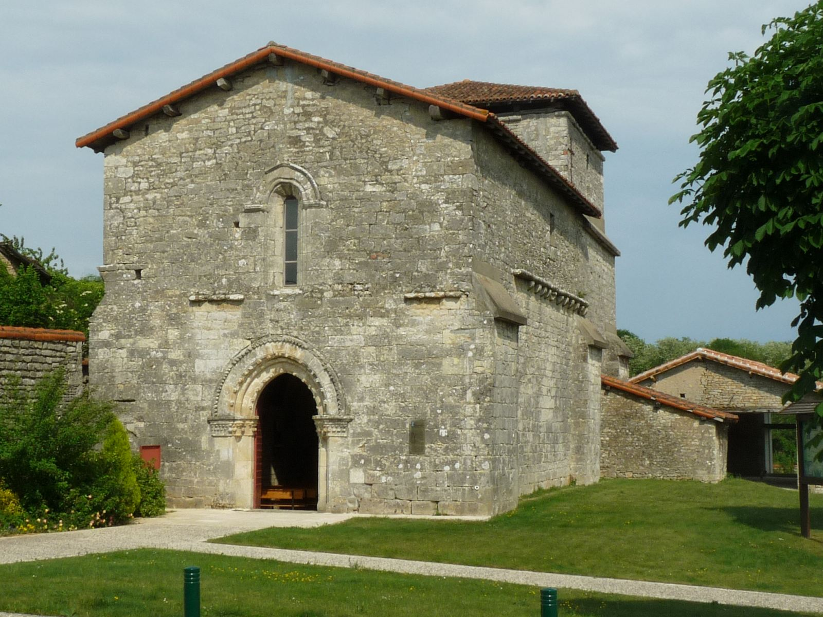 church of Le Grand-Madieu, Charente, SW France